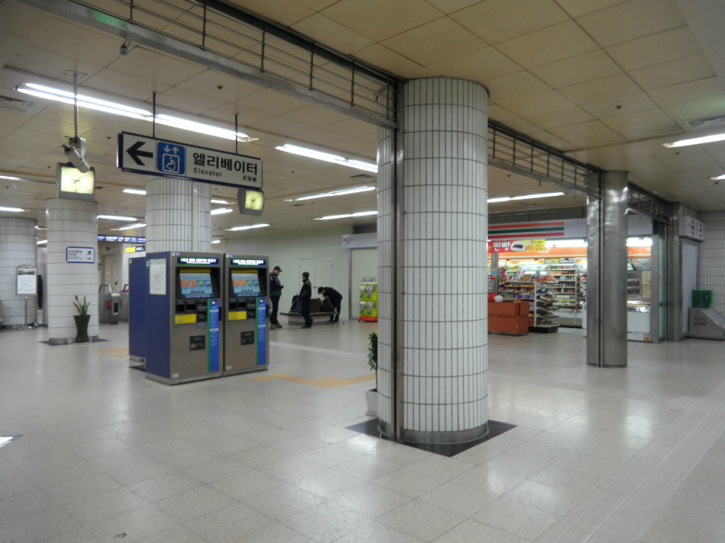 Waiting room of Sanseong Station